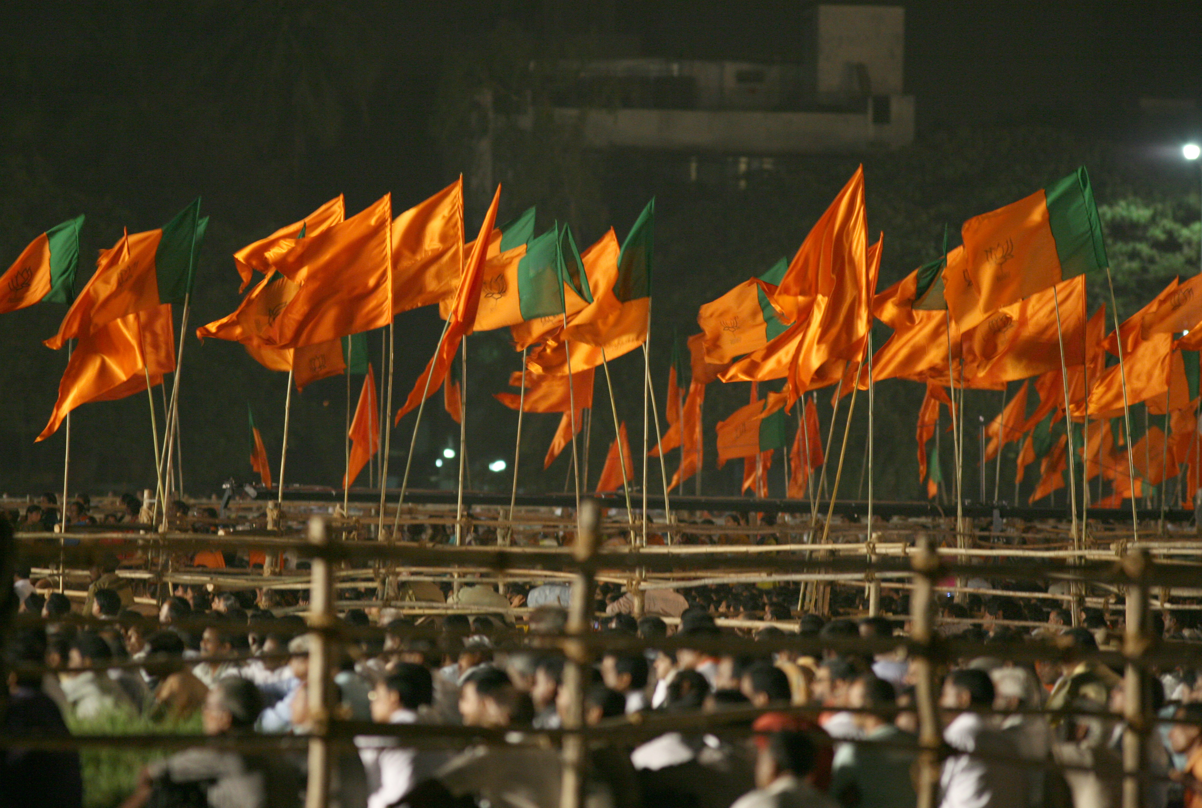 Party flags of Bharatiya Janta Party (BJP) and Shiv Sena on display as Lal Krishna Advani, the oppositions prime ministerial candidate, addresses an election rally in the western Indian city of Mumbai.